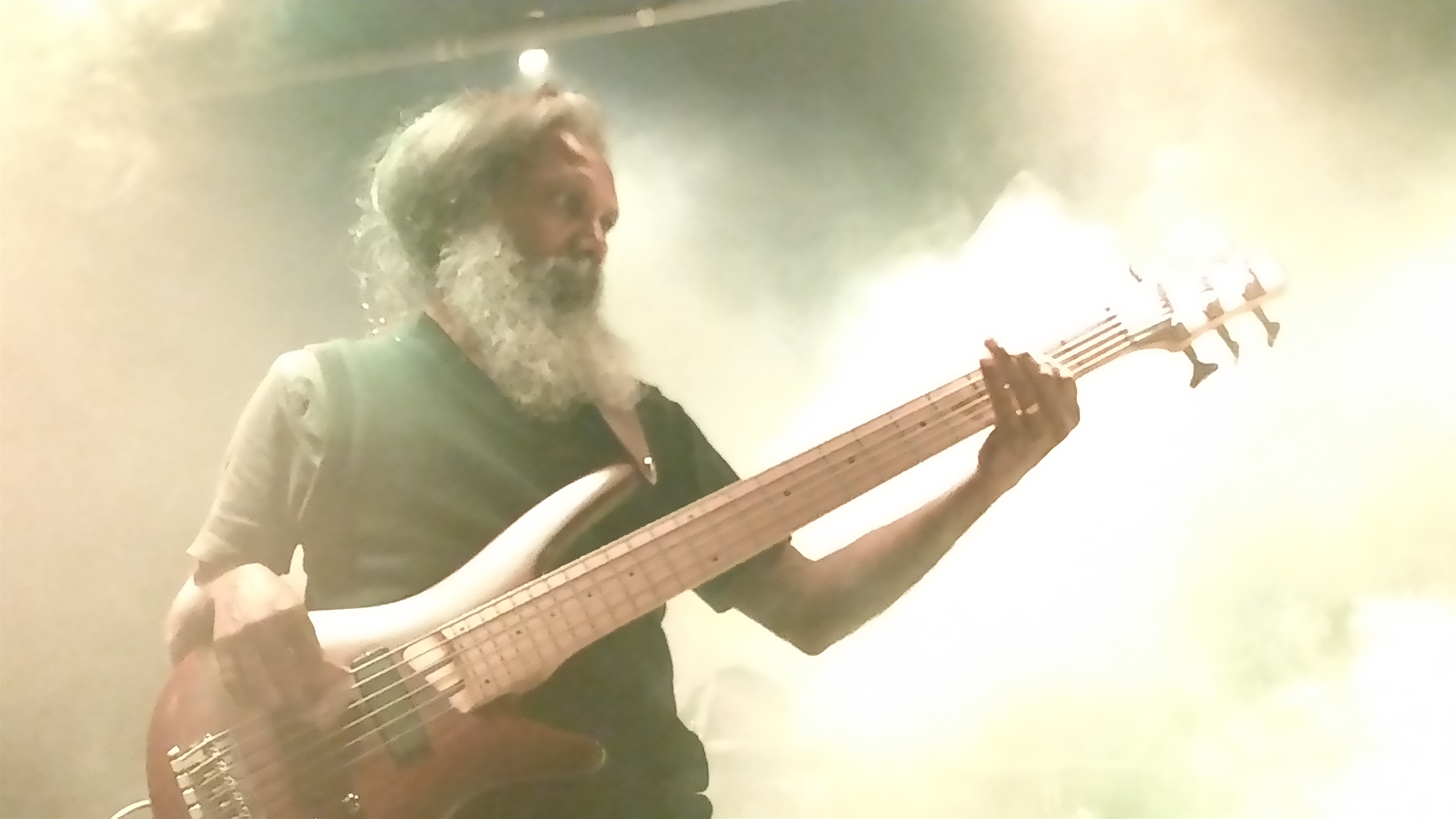 Binny John Aviyal Base Guitarist. Picture taken at Xu Bangalore.